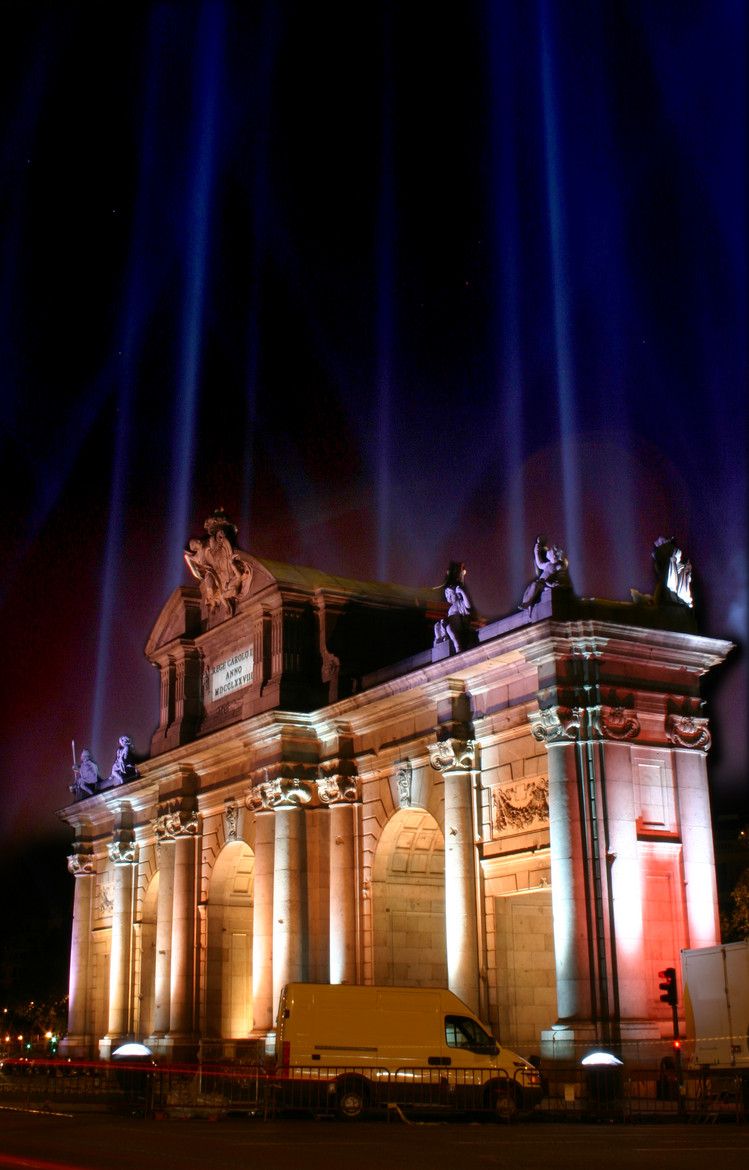 Puerta de Alcalá at night